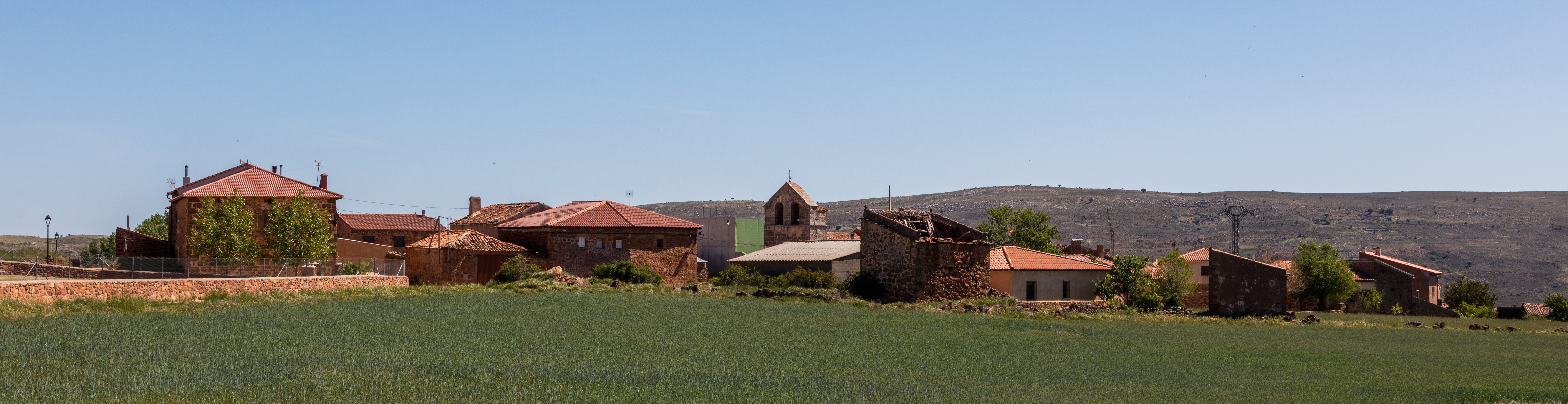 Casillas, Guadalajara, Spain